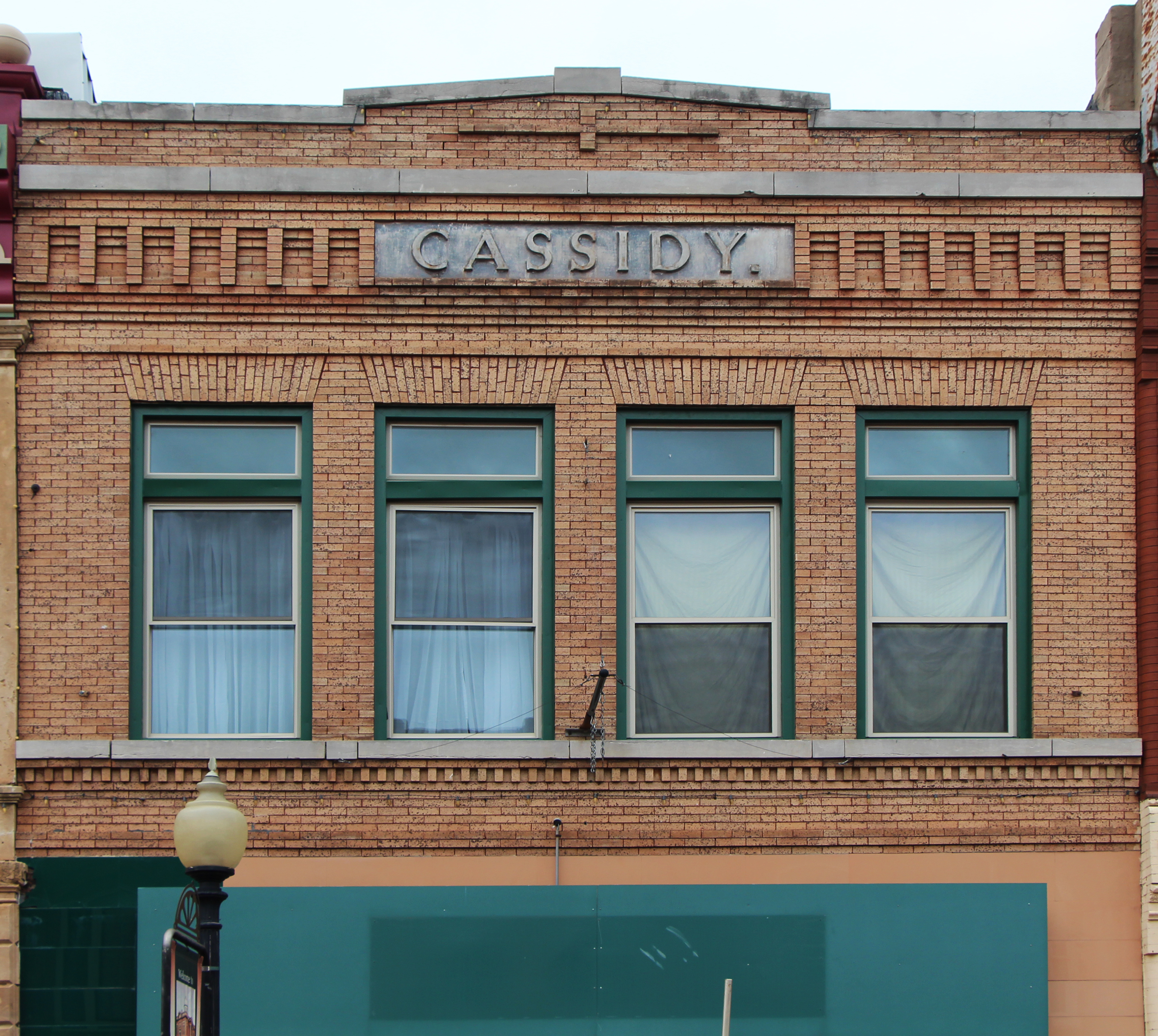 Cassidy Building, Guthrie, Oklahoma